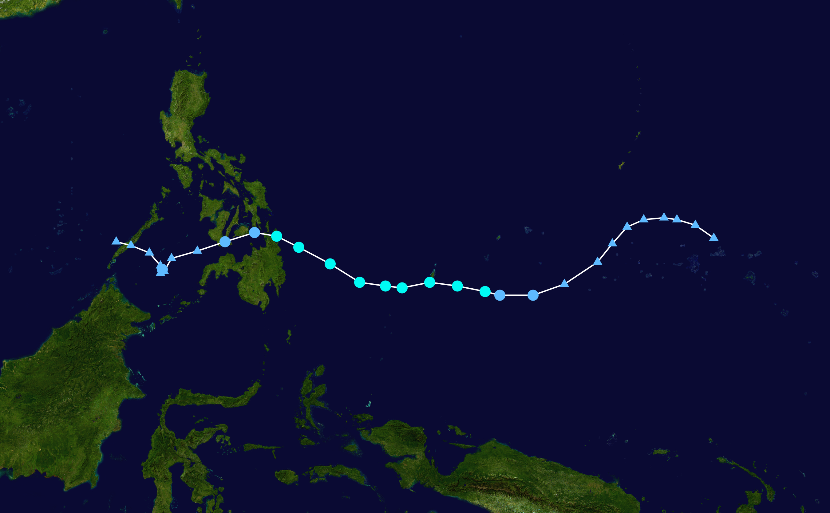 Track map of Tropical Storm Sanba of the 2018 Pacific typhoon season. The points show the location of the storm at 6-hour intervals. The colour represents the storm's maximum sustained wind speeds as classified in the Saffir–Simpson scale (see below), and the shape of the data points represent the nature of the storm, according to the legend below. Saffir–Simpson scale Tropical depression≤38 mph≤62 km/h Category 3111–129 mph178–208 km/h Tropical storm39–73 mph63–118 km/h Category 4130–156 mph209–251 km/h Category 174–95 mph119–153 km/h Category 5≥157 mph≥252 km/h Category 296–110 mph154–177 km/h Unknown Storm type Tropical cyclone Subtropical cyclone Extratropical cyclone / Remnant low / Tropical disturbance / Monsoon depression